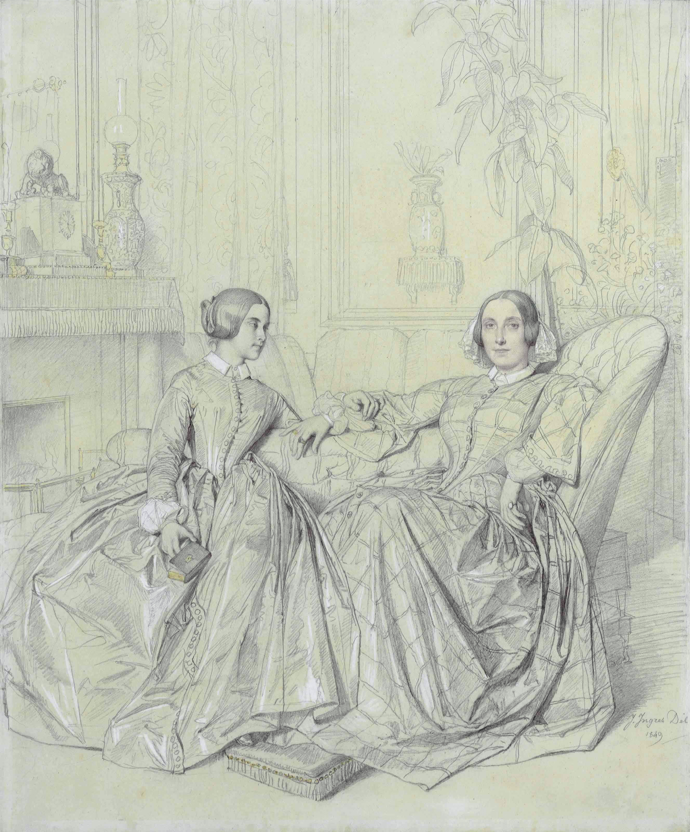 Comtesse Charles d'Agoult, née Marie d'Agoult, and her daughter Claire d'Agoult